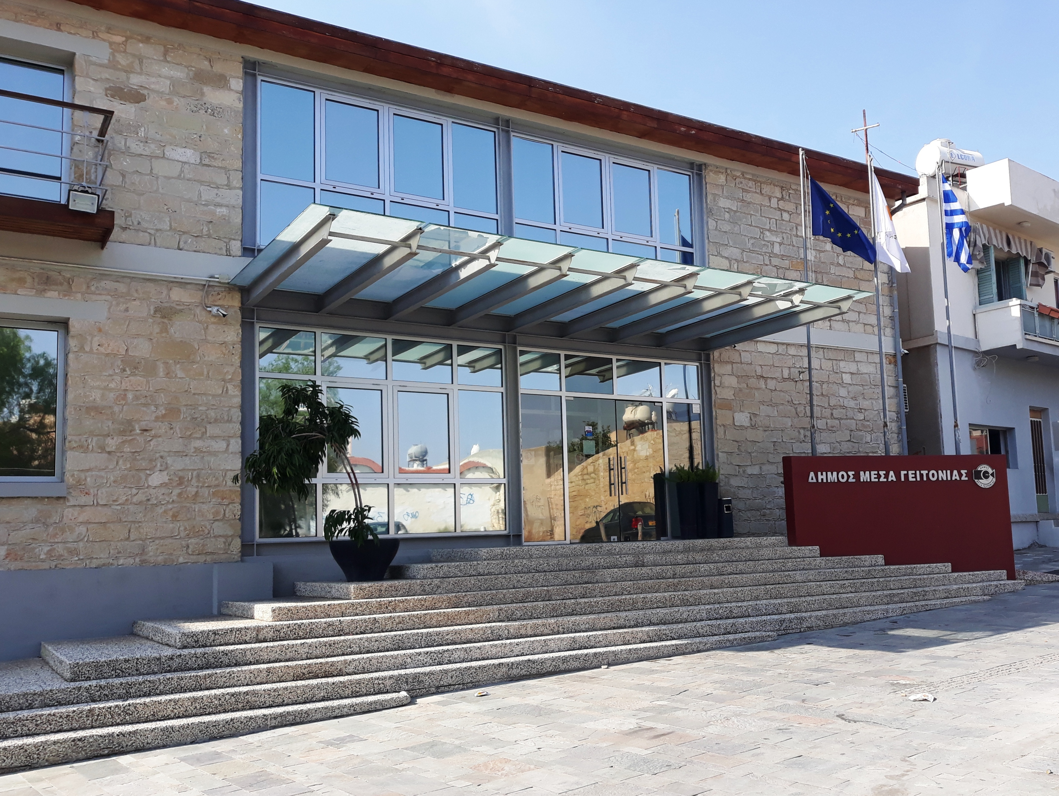 Mesa Geitonia Town Hall